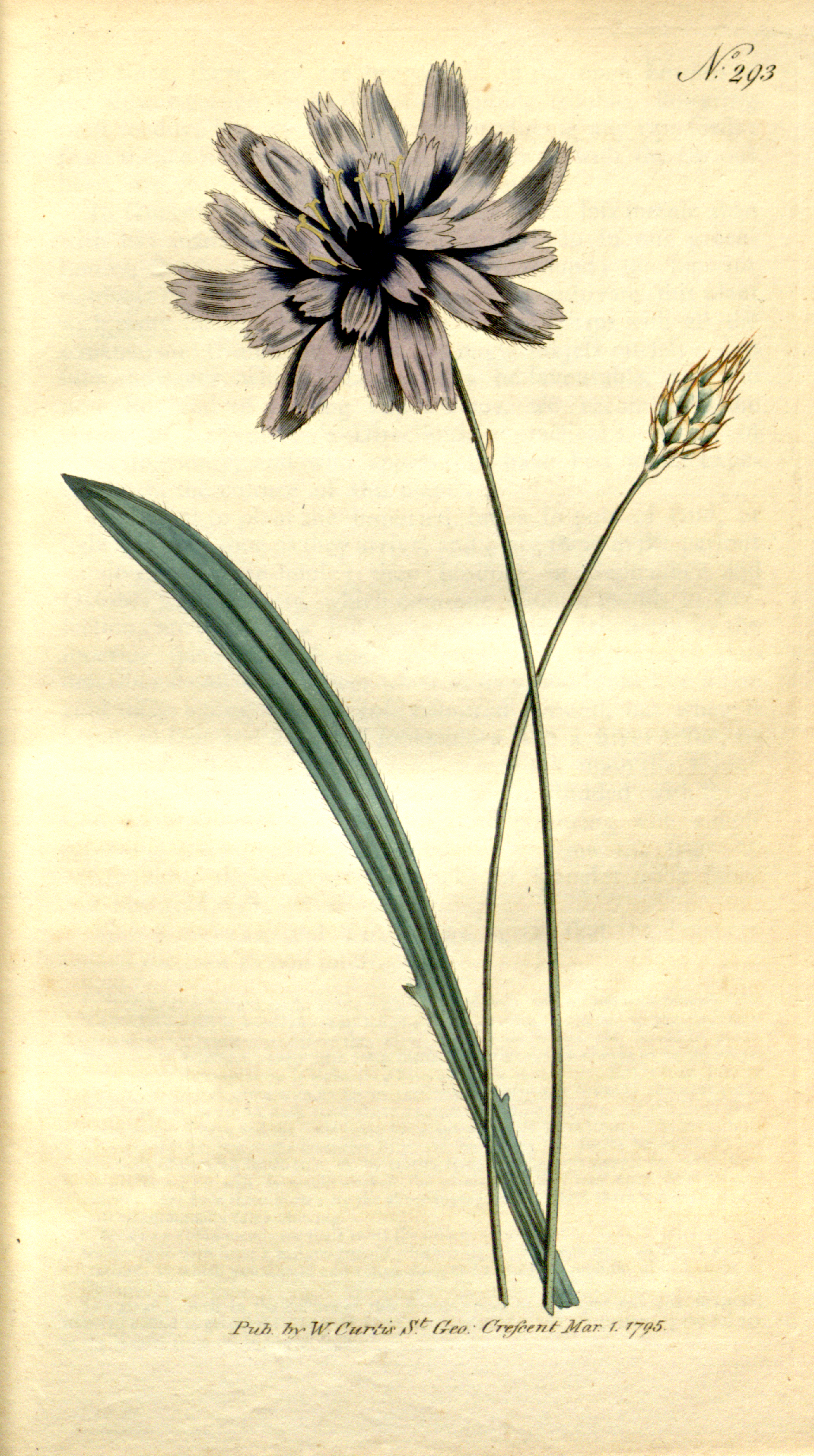 This is a plate from The Botanical Magazine, Volume 9.